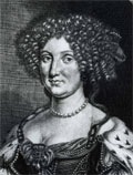 Marie Hedwig of Hesse-Darmstadt